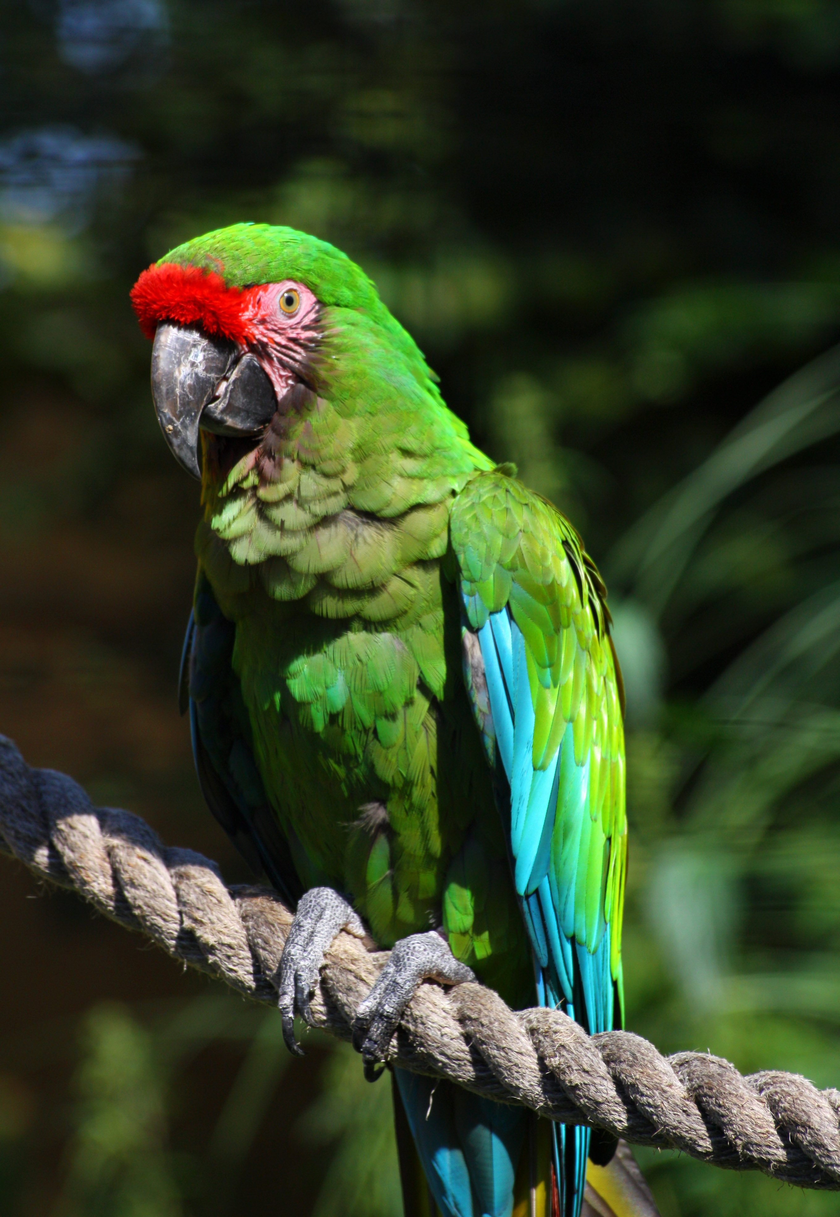 A Military Macaw at London Zoo, England.